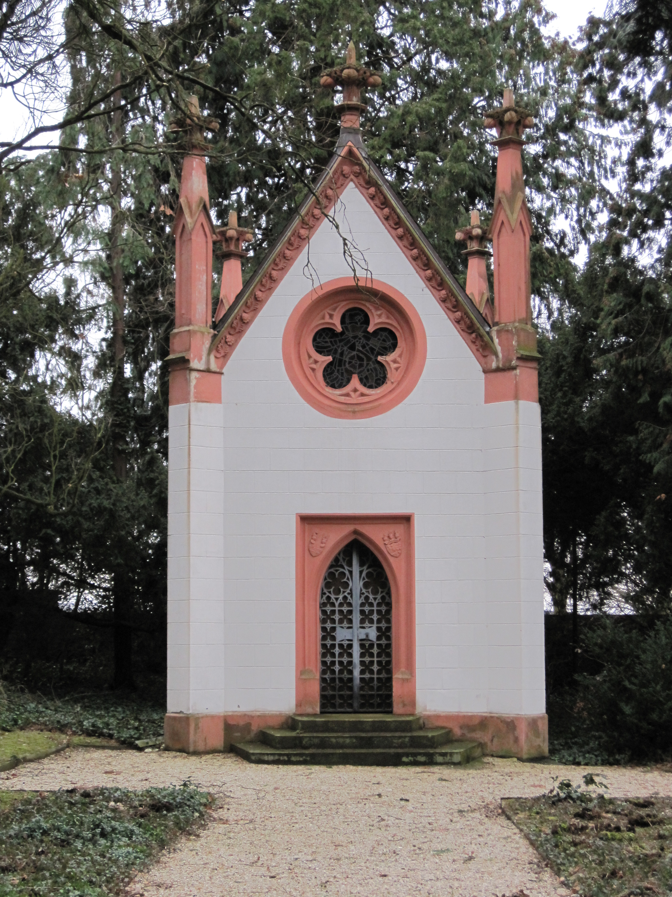 Stein's crypt: family crypt of the imperial barons from and to Stein in Frücht, Rhineland-Palatinate. Created around 1817 in neo-Gothic style based on plans by the architect Johann Claudius von Lassaulx.